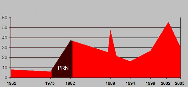 Rate of poverty in Gran Buenos Aires, Argentina. 1965-2005. In black it's highlighted the "Proceso de Reorganización Nacional", the dictatorship that ruled between 1976-1983. Source: INDEC. Poverty is defined as insufficient income to buy a Total Basic Basquet (in Spanish CBT) (food, housing, health, education, transport, etc.). "Poverty" is different to "extreme poverty" (Spanish = indigencia), defined as insufficient income to buy a Basic Food Basquet (in Spanish CBA).